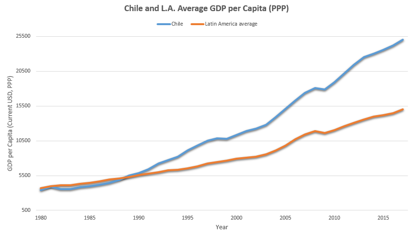 Chilean and Latin American gross domestic product (GDP) per capita, measured by "current international dollars", over time at PPP. The Latin American average INCLUDES Chile. Source: International Monetary Fund, World Economic Outlook Database, October 2015